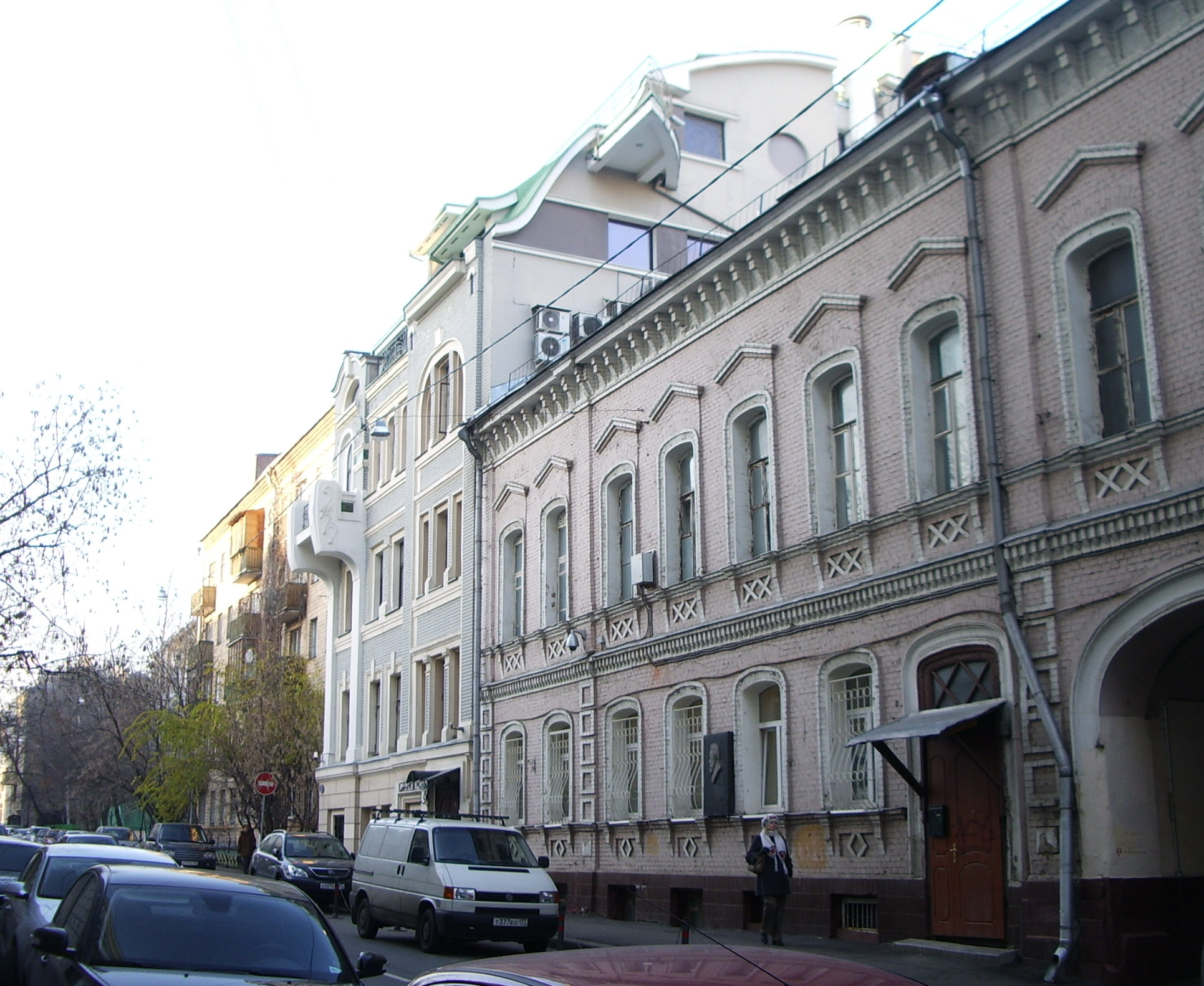 Moscow, Khlebny Lane 6, 8, 10